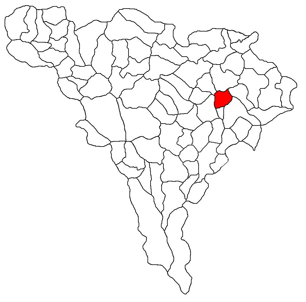 Locator map of the commune of Bucercea Grânoasă, Alba County, Romania